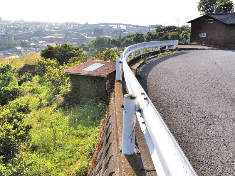 Ishigakiyama Farm Road and farm